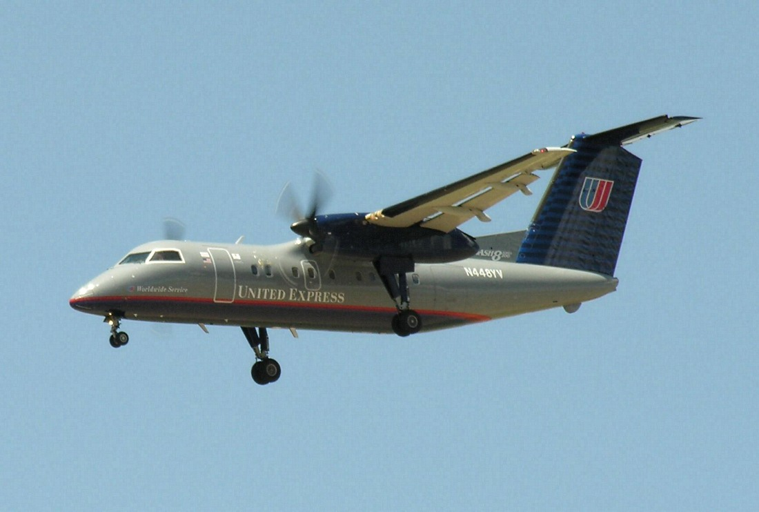 Bombardier Dash 8-100, Denver International Airport, Colorado